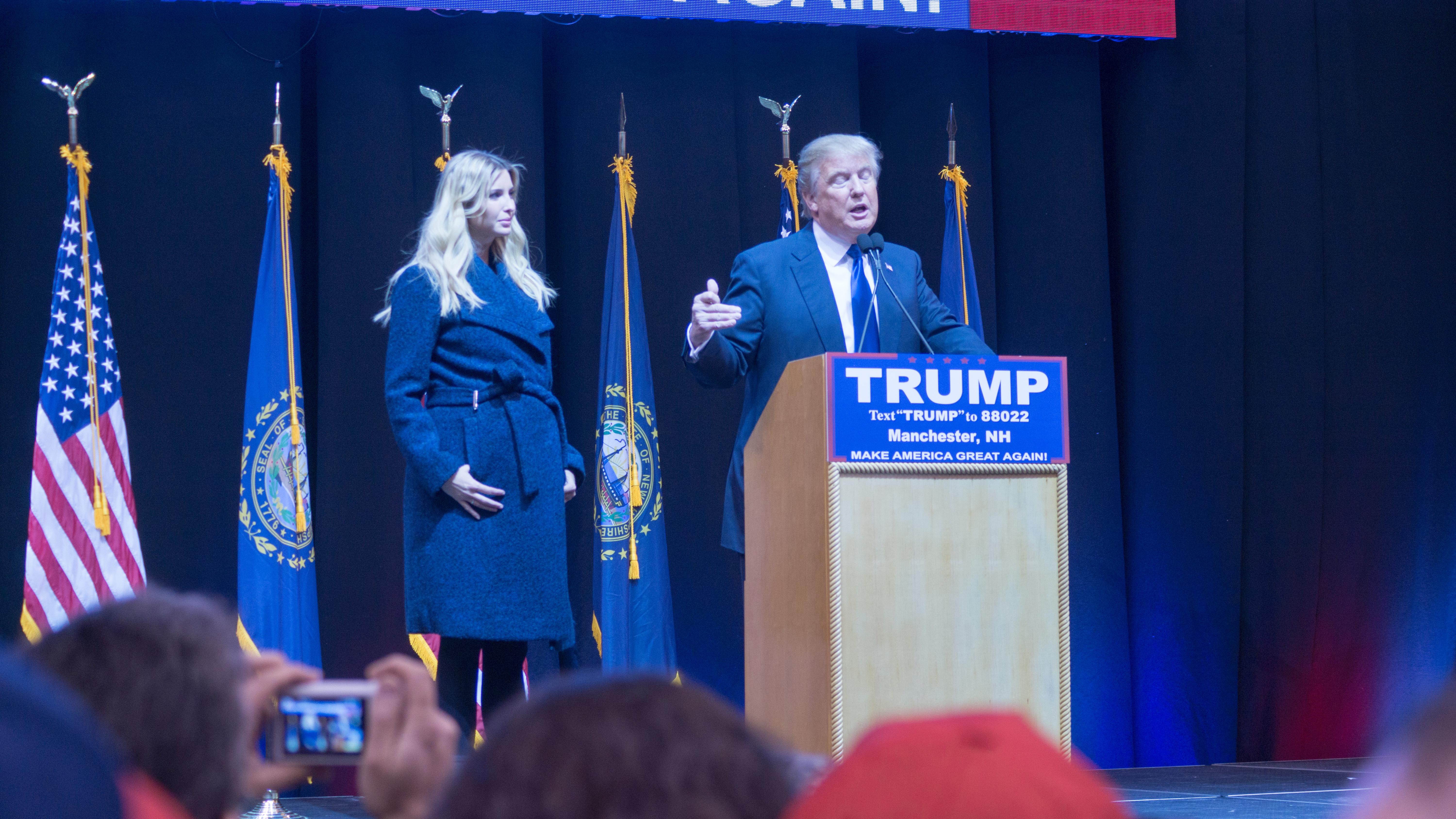 Donald Trump with his daughter Ivanka at a campaign rally in New Hampshire, ahead of the February 2016 New Hampshire primaries.